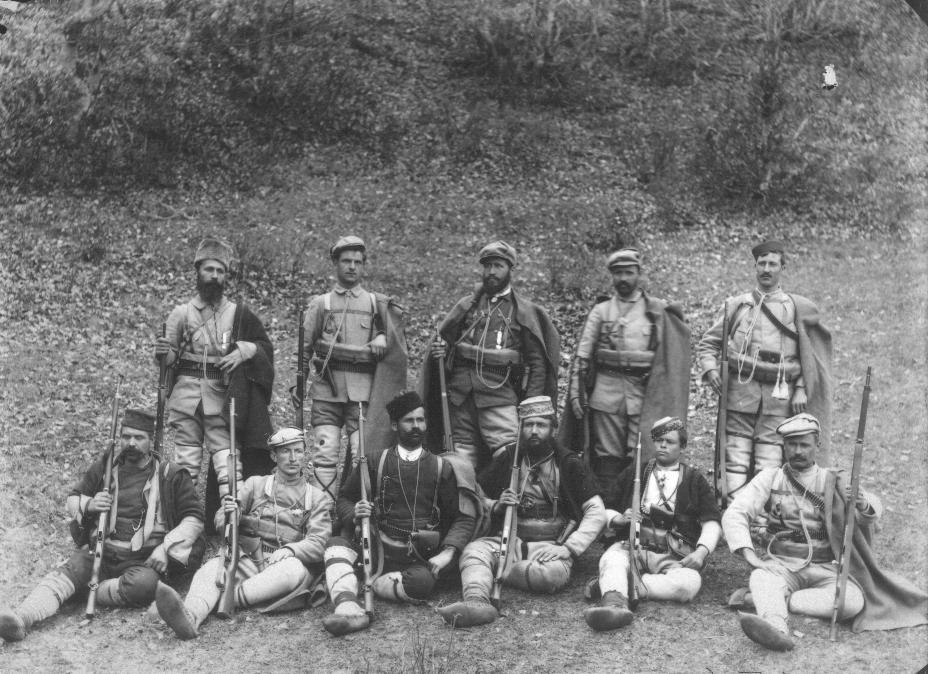 Cheta of IMARO voivoda Mishe Razvigorov